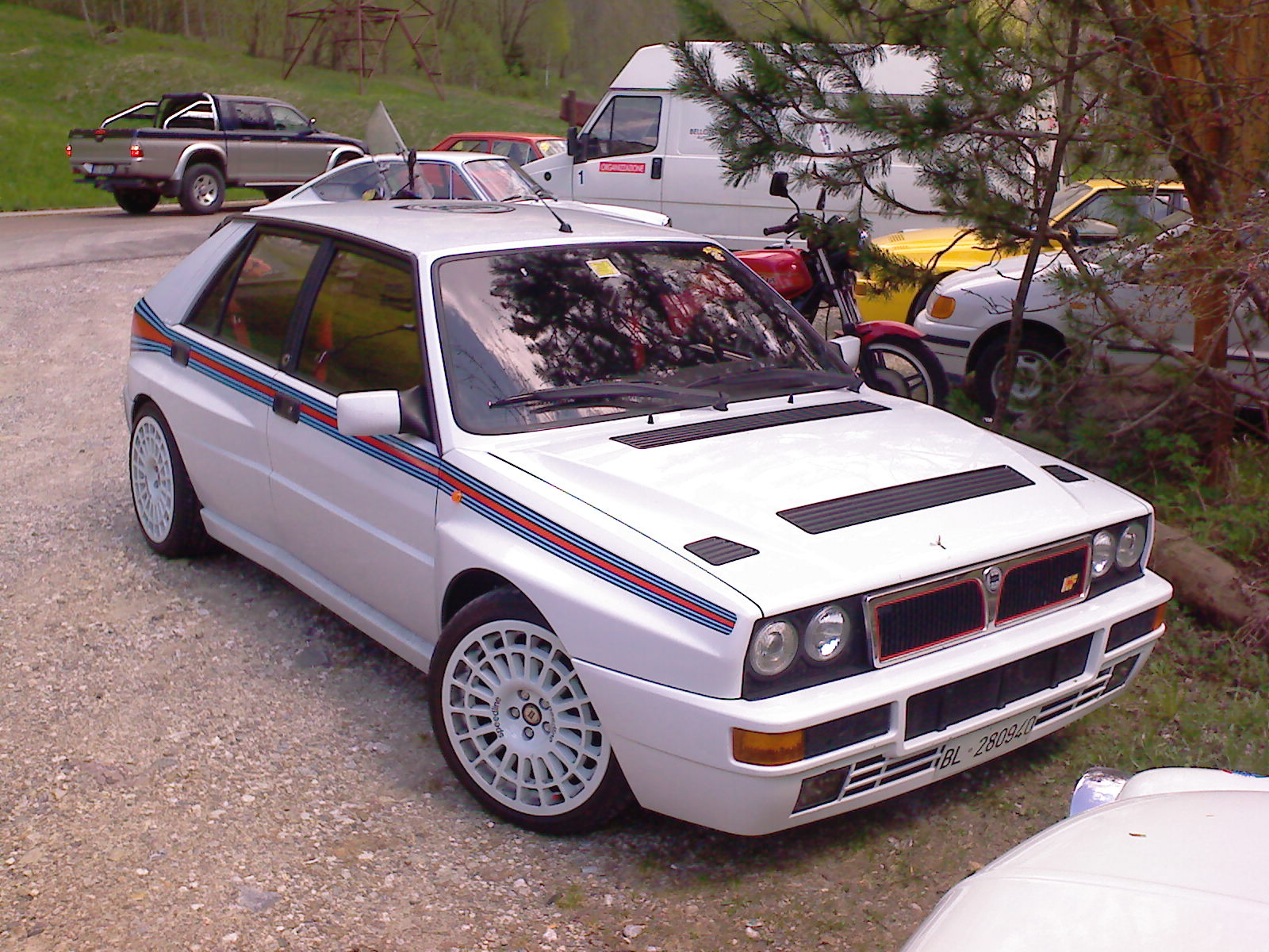 Lancia Delta Martini. Picture taken at Daone (Trento, Italy), on 30 april 2009.